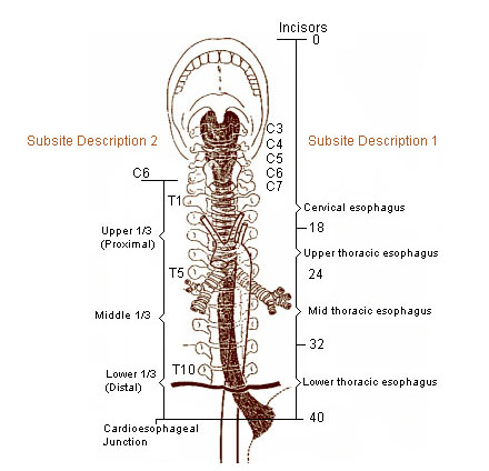 Esophagus